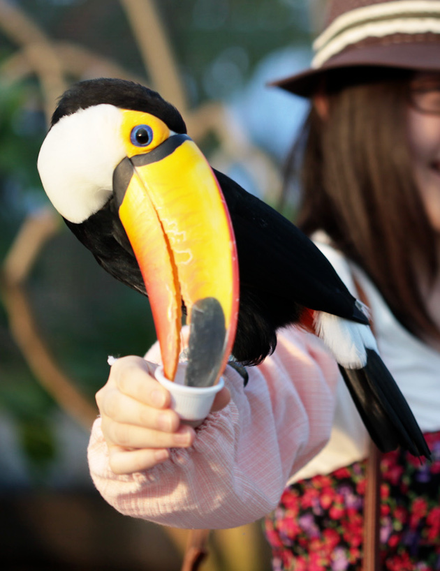 Toucan being feeded in Kobe Kachoen